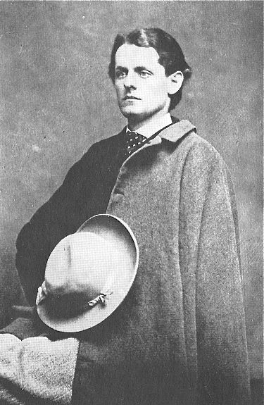 Henry Kyd Douglas in civilian clothing